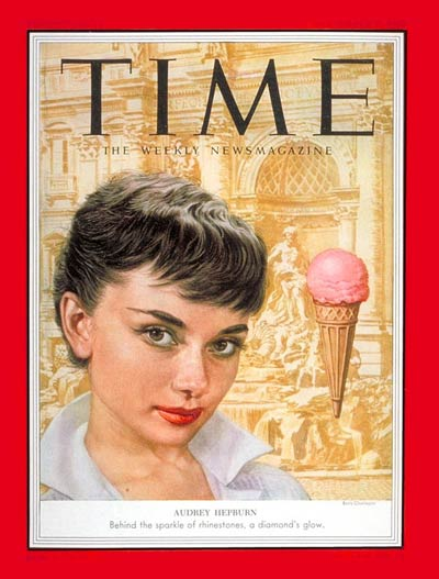 Audrey Hepburn on Time magazine cover, 1953.